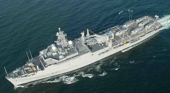 INS Jalashwa, an Austin class amphibious transport dock ship of the Indian Navy.